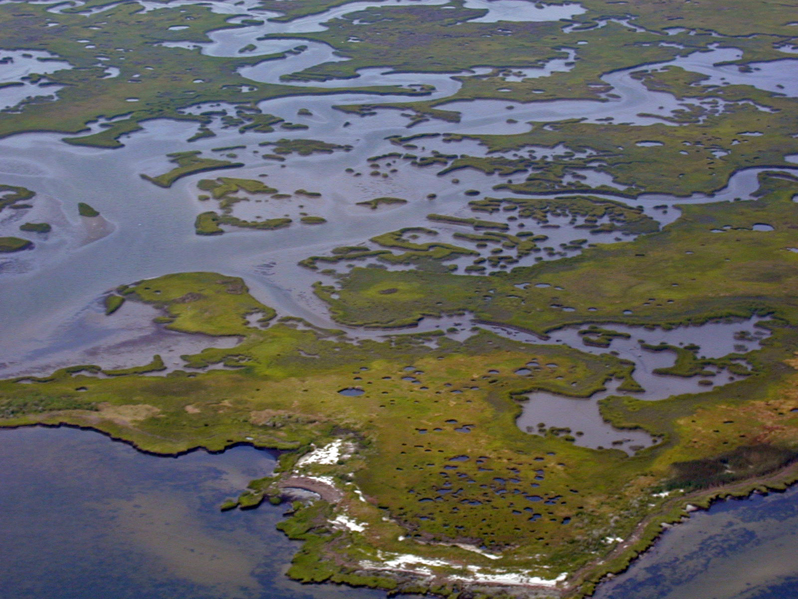 Plum Tree Island National Wildlife Refuge, VA. Credit: USFWS